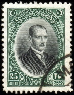 A Turkish Stamp featuring Mustafa Kemal Ataturk